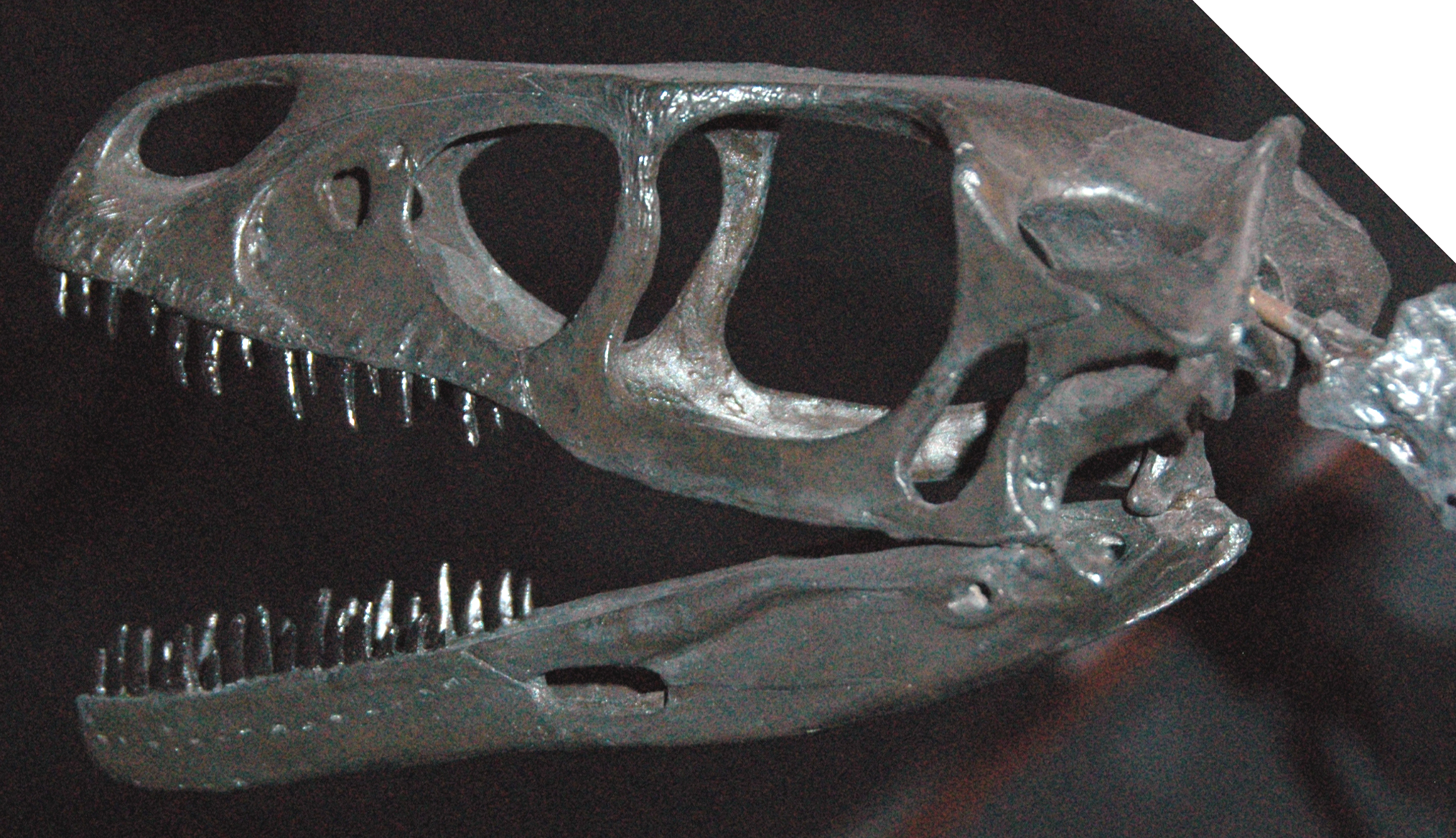 Saurornitholestes langstoni theropod dinosaur Sues, 1978 from the Cretaceous of Montana, USA (public display, MOR 660R, Museum of the Rockies, Bozeman, Montana, USA). Classification: Animalia, Chordata, Vertebrata, Dinosauria, Theropoda, Dromaeosauridae Stratigraphy: upper Two Medicine Formation, upper Campanian Stage, Upper Cretaceous Locality: Bob's Vacation Site (apparently), Glacier County, northwestern Montana, USA Theropod were small to large, bipedal dinosaurs. Almost all known members of the group were carnivorous (predators and/or scavengers). They represent the ancestral group to the birds, and some theropods are known to have had feathers. Some of the most well known dinosaurs to the general public are theropods, such as Tyrannosaurus, Allosaurus, and Spinosaurus.